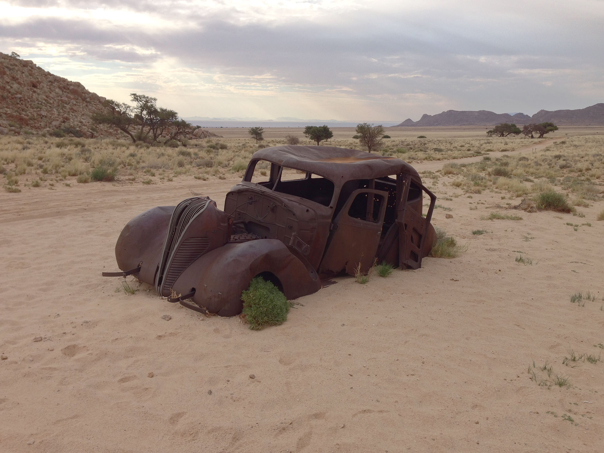 Hudson Terraplane (1937) in Ghost Valley, Aus-Mountains, Namibia. Background: trail of Lüderitzbahn railway, Diamond Area 1, Tsau-ǁkhaeb-Sperrgebiet (Namib desert).